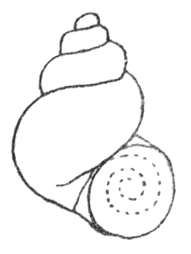 drawing of the shell of Bithynia leachii